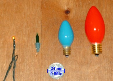 A picture of bulbs from the four most common types of Christmas lights currently being used in the United States. From left to right: "rice style" (illuminated for better visibility), T1¾ "midget", C7½ and C9¼. A US quarter is shown for size comparison.